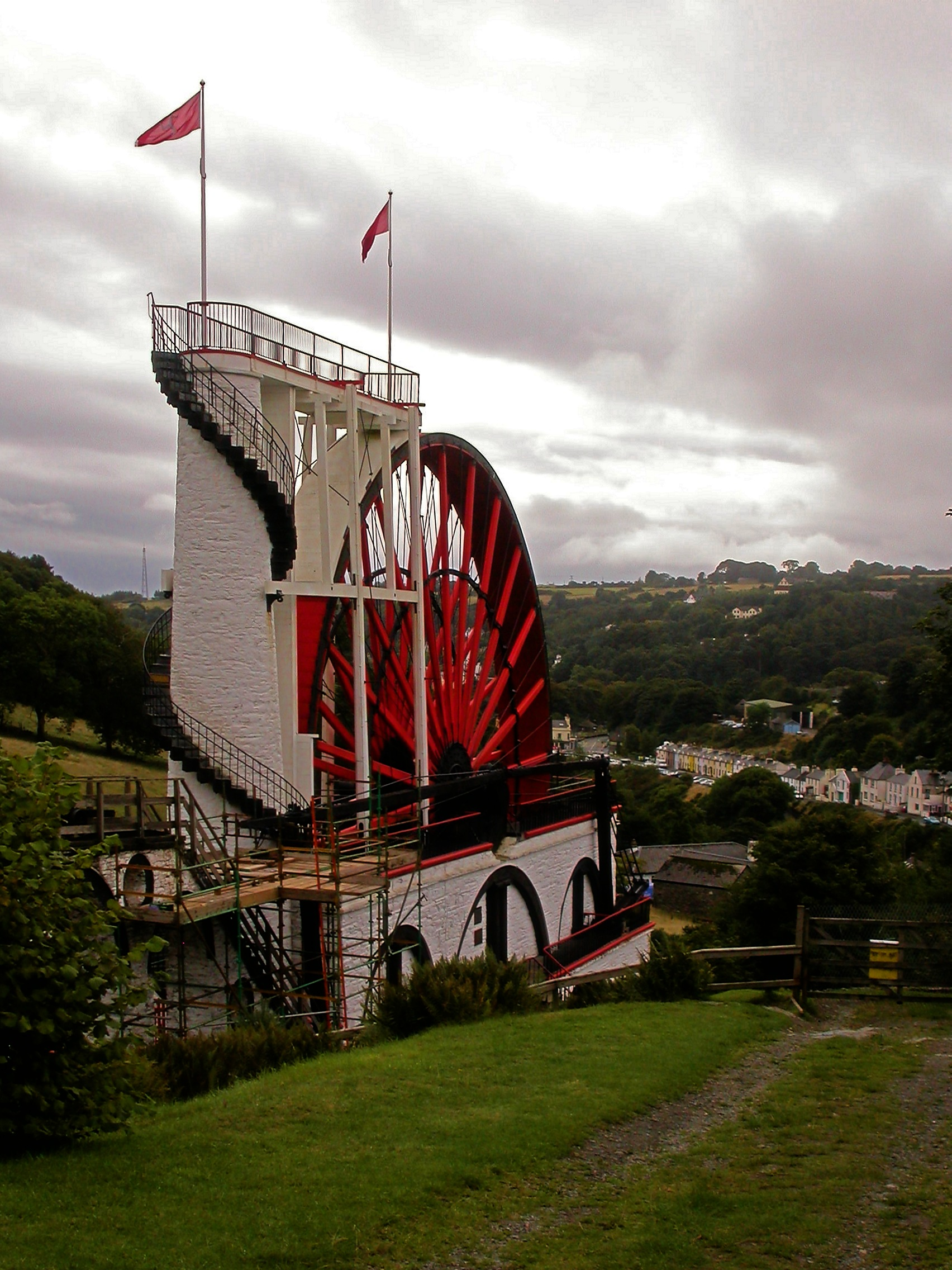 Description: Photo of Laxey Wheel. In the background some parts of Laxey. Date of creation: Photo taken on holiday 09/15/2006. Autor: THawers